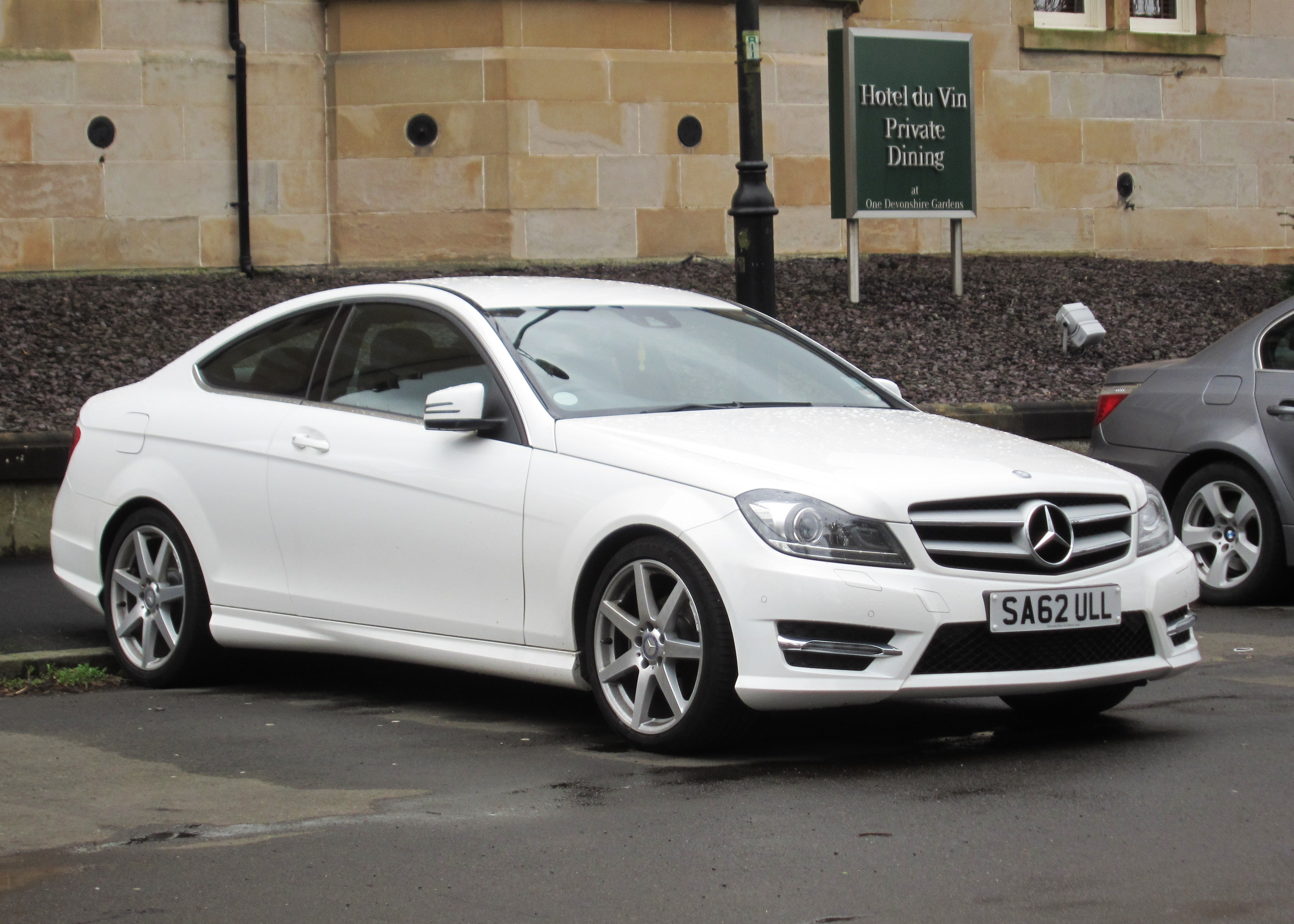 Mercedes-Benz C-Klasse diesel coupé in Glasgow